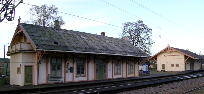 Seterstøa railway station, Nes, Akershus, Norway. Built 1862. Architects:Heinrich Ernst Schirmer and Wilhelm von Hanno. Both buildings protected by law 1996.